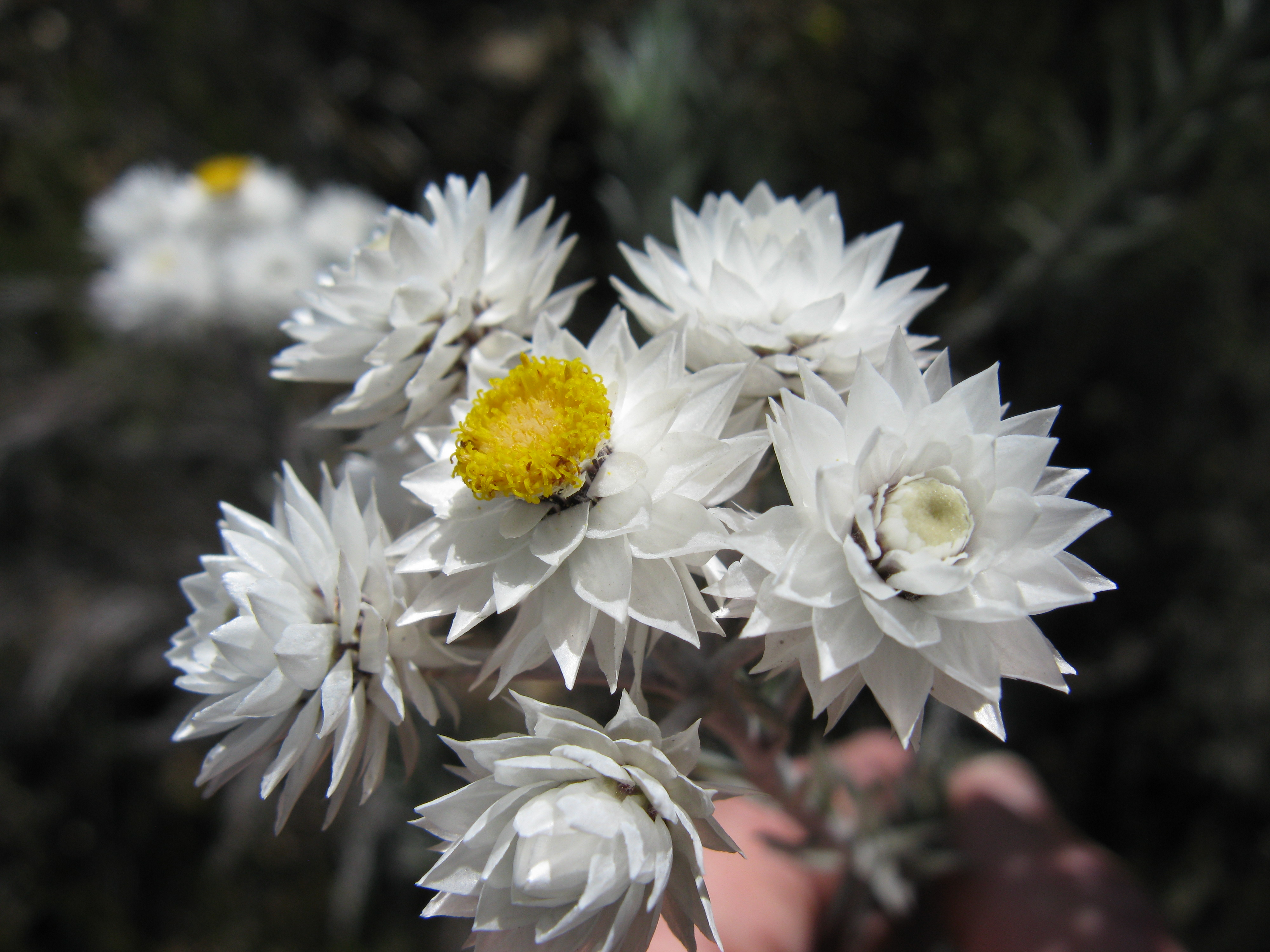 Syncarpha species in flower. Photographed near Uniondale South Africa